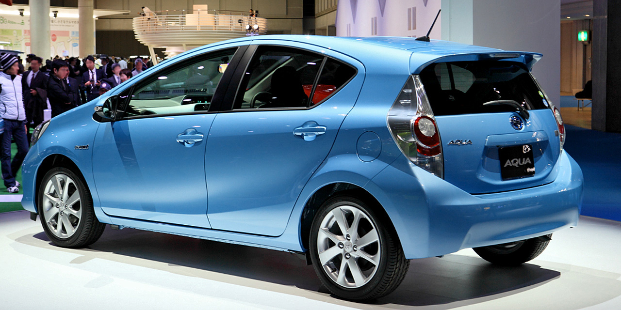 Toyota Aqua (Tokyo Motor Show 2011)